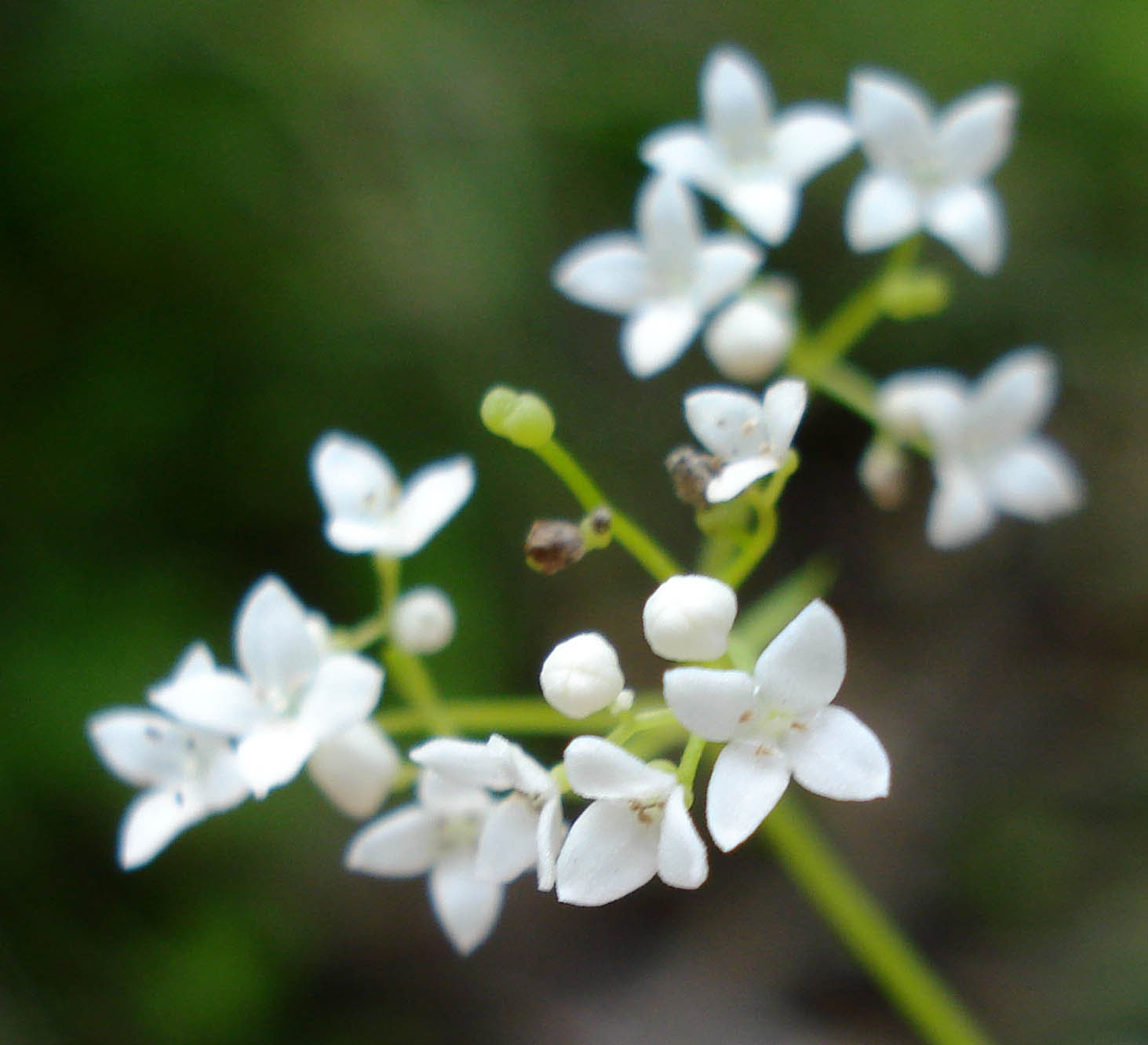 Galium uliginosum (Unterfranken, Germany)